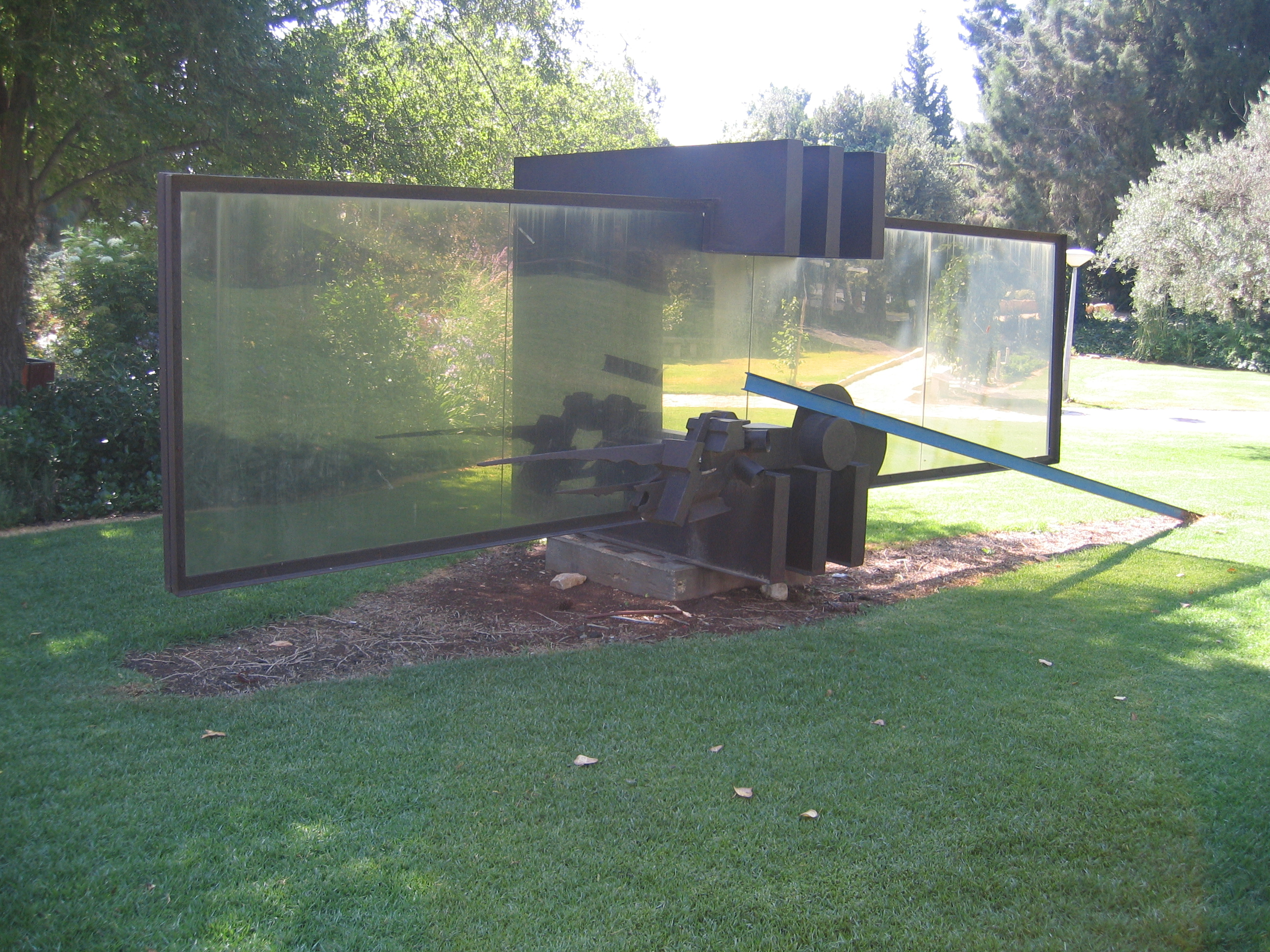 Reflecting Wall n.5 (1976-1978) by Yigal Tumarkin, Givat ram, Jerusalem.